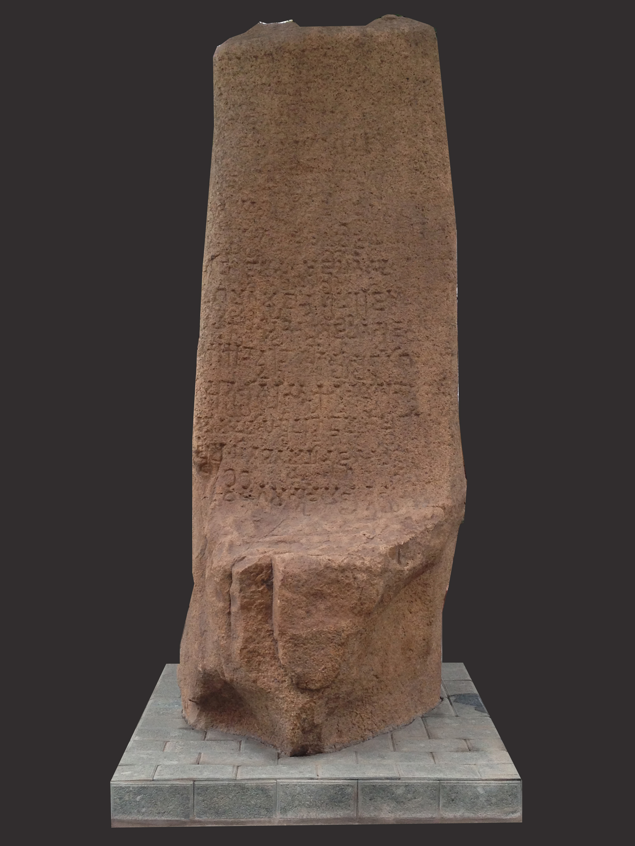 Vo Canh Stele (the original stele at National Museum of Vietnamese History in Hanoi) - a National Treasure of Vietnam Stone, 3th-4th Century AD, height: 320 cm, width: 110 cm, depth: 80 cm Discovered in Vo Canh village, Vinh Trung commune, Nha Trang, Khanh Hoa